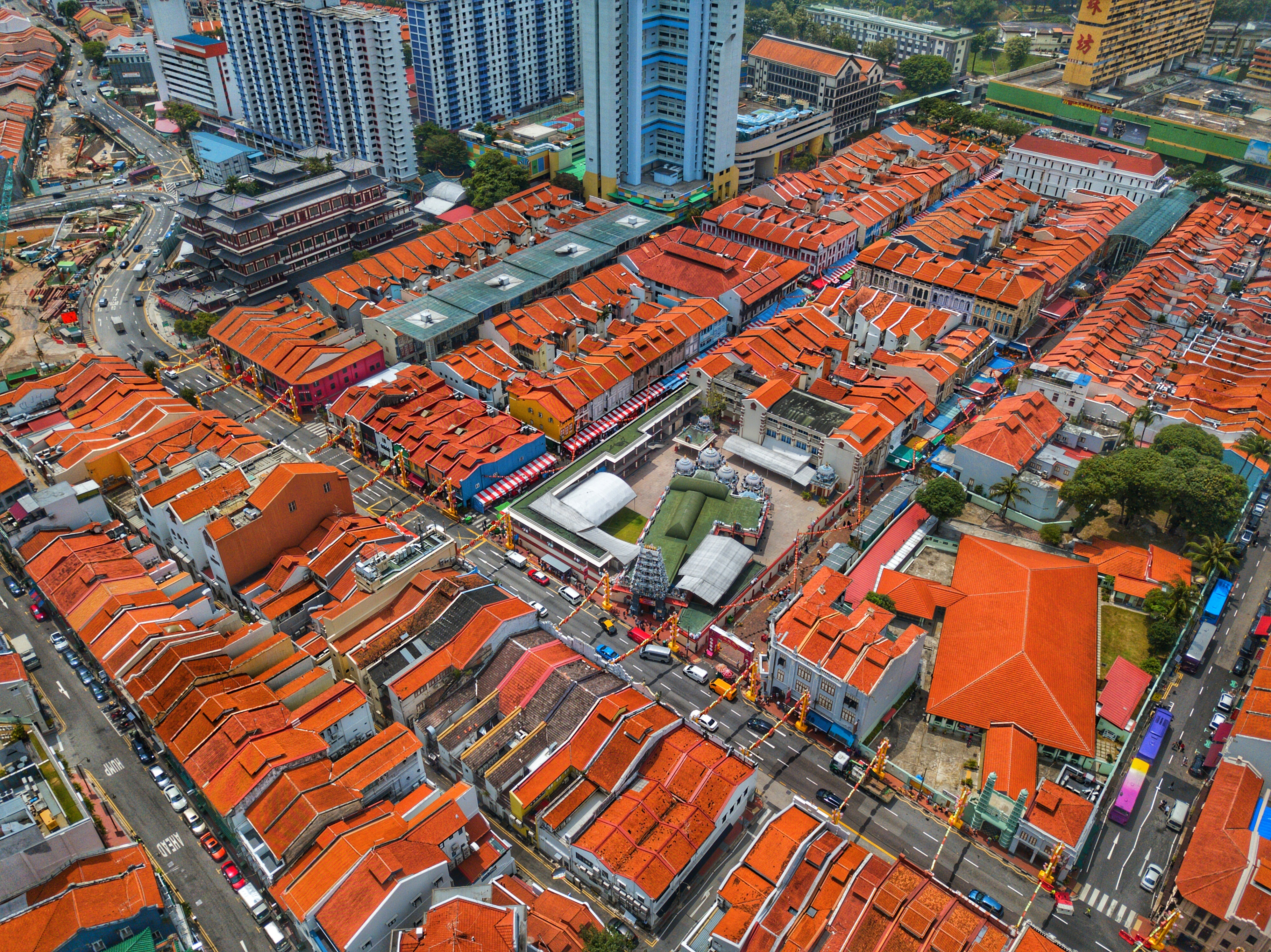 Aerial perspective of Singapore's Chinatown